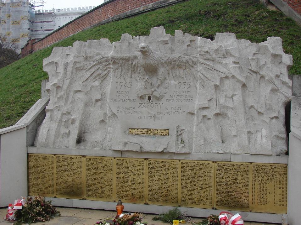 Hieronim Dekutowski Monument by Lublin Castle in Lublin, Poland